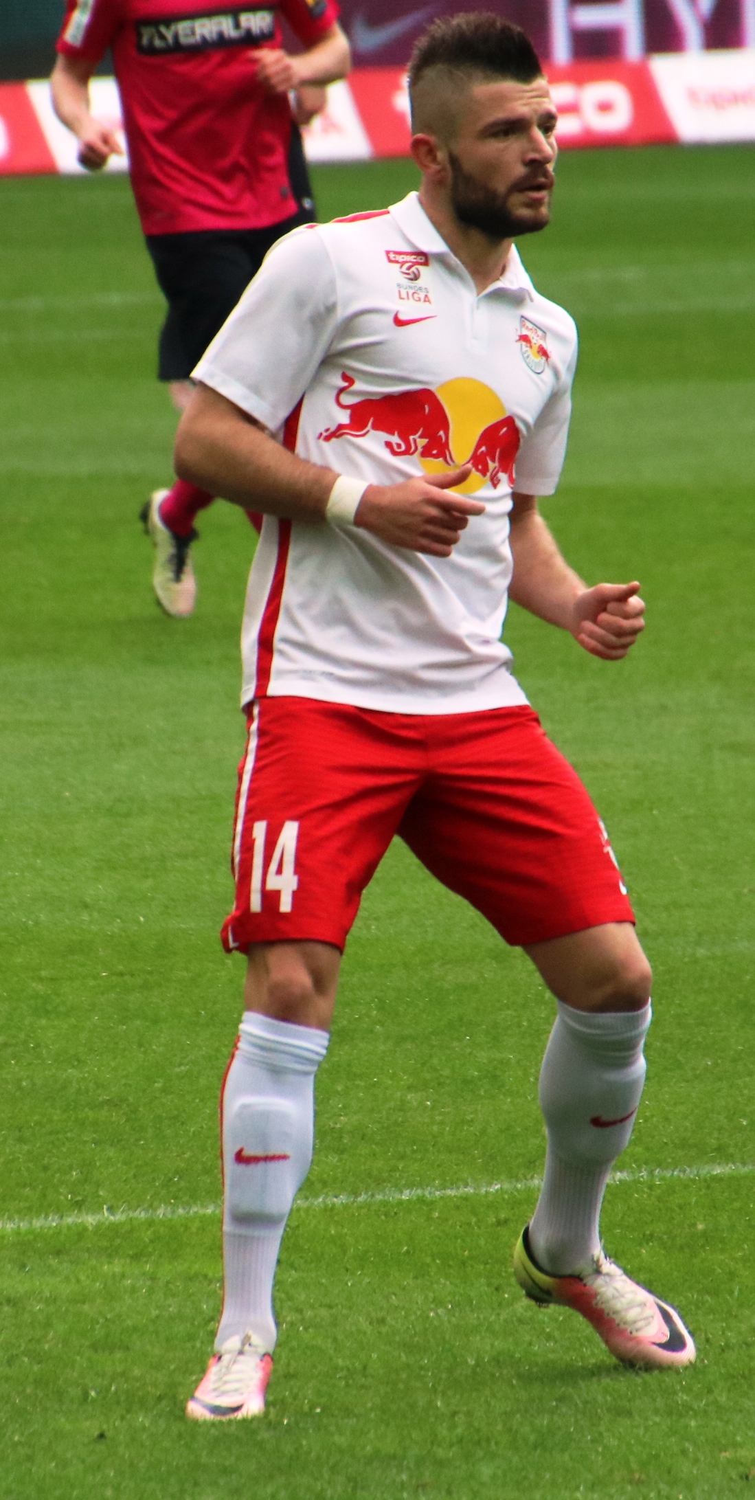 league match Austrian Bundesliga